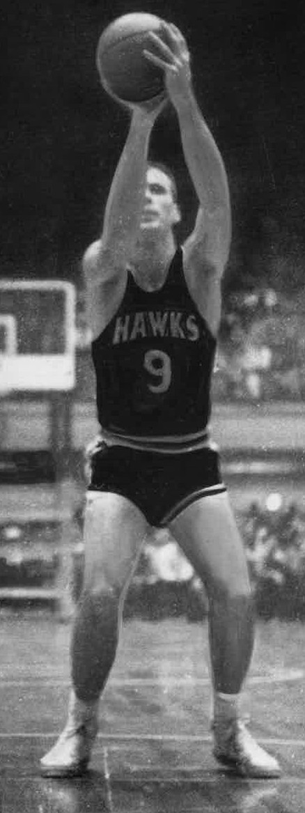 Professional basketball player Bob Pettit